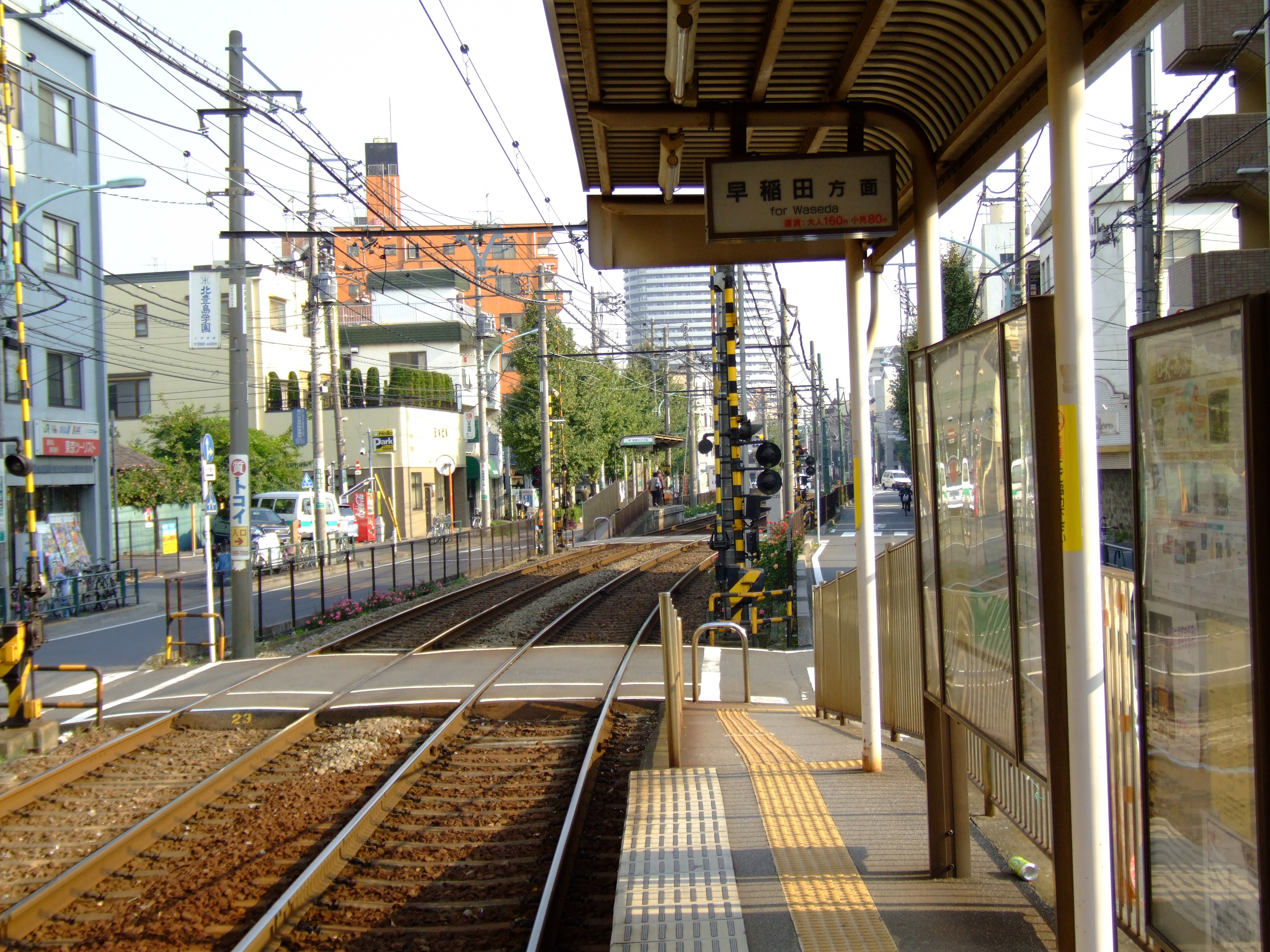 Higashiogu 3chome station (Toden Arakawa Line)